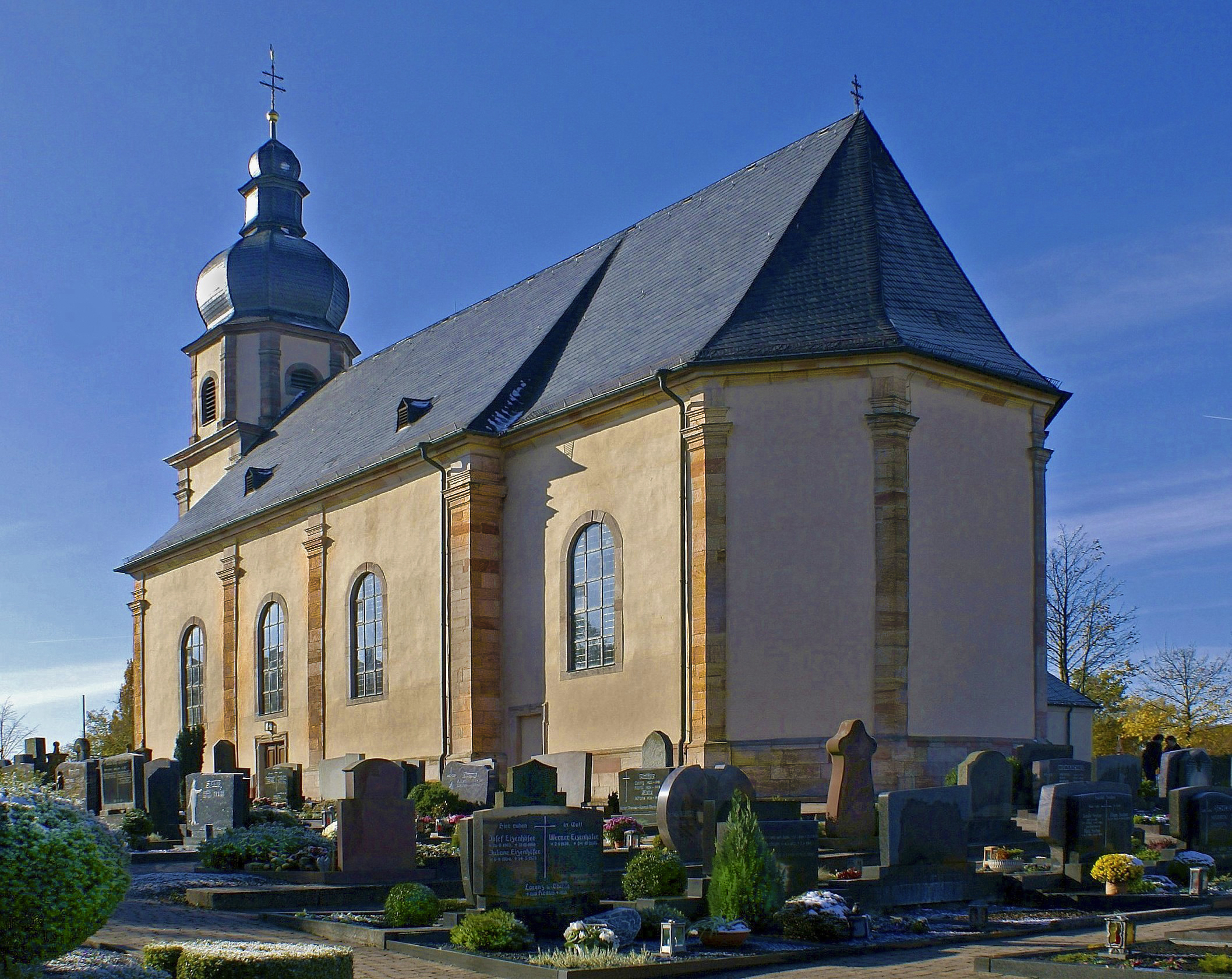 Catholic church of Johannes' Enthauptung in Johannesberg